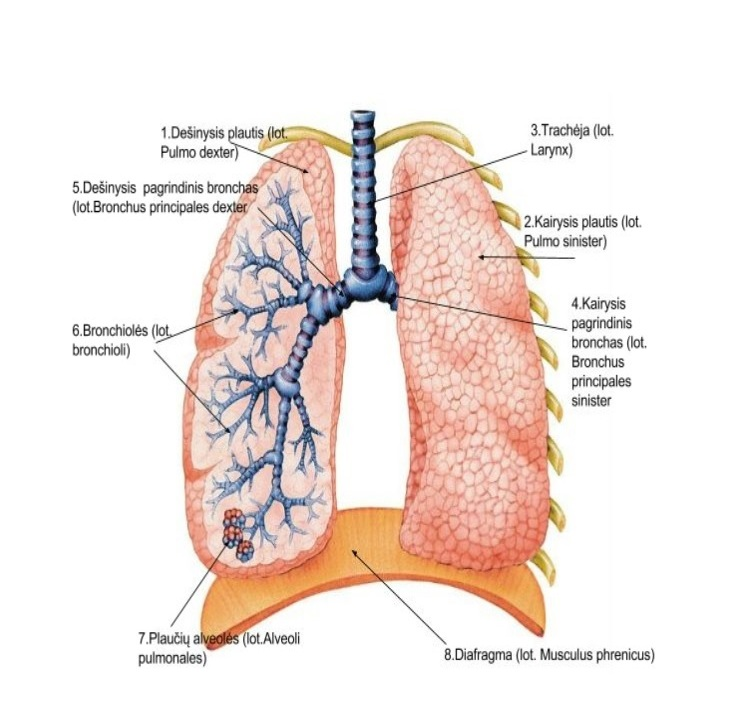 Žmogaus kvėpavimo sistema